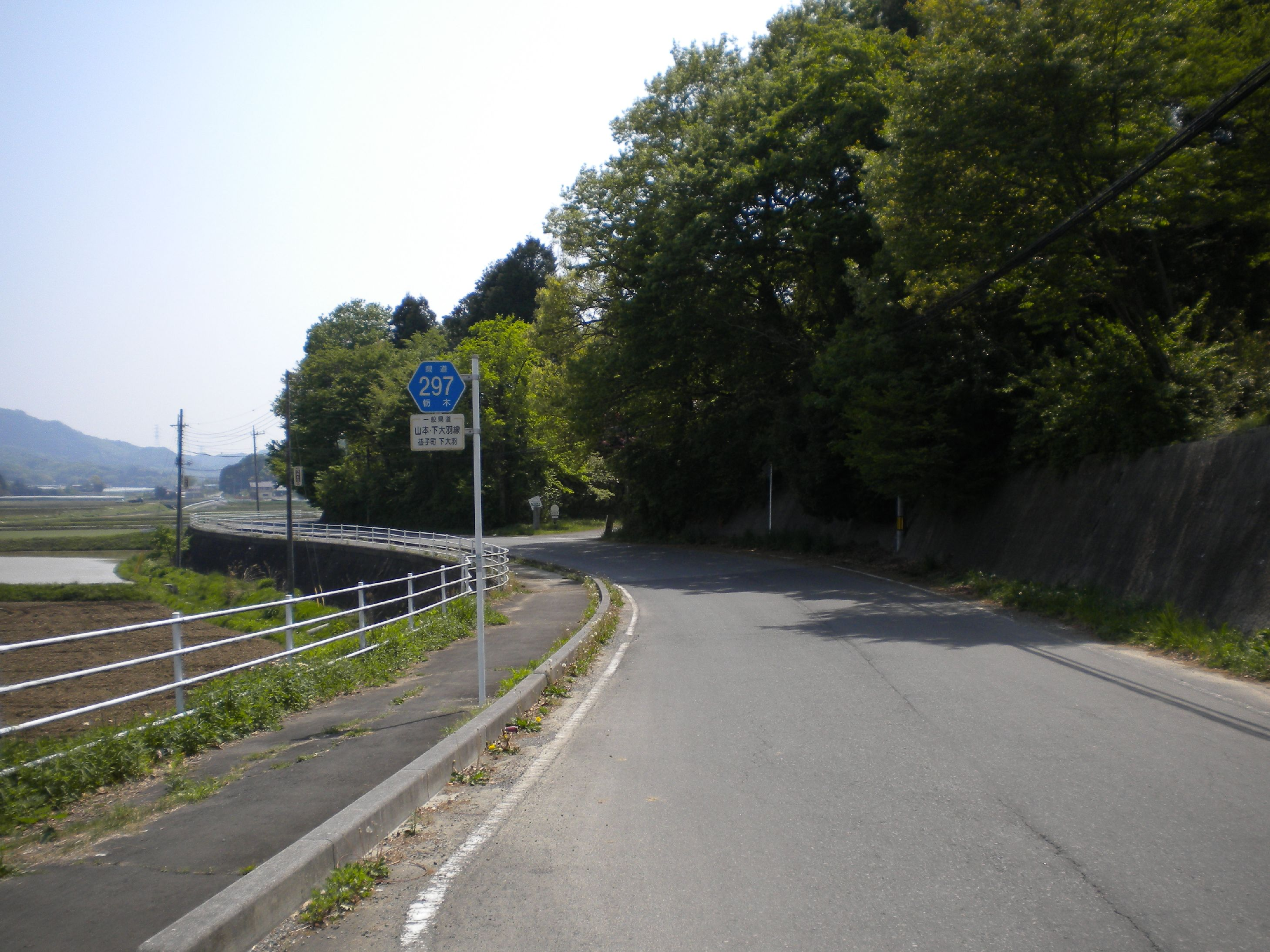 Tochigi prefectural road No.297 on Mashiko town